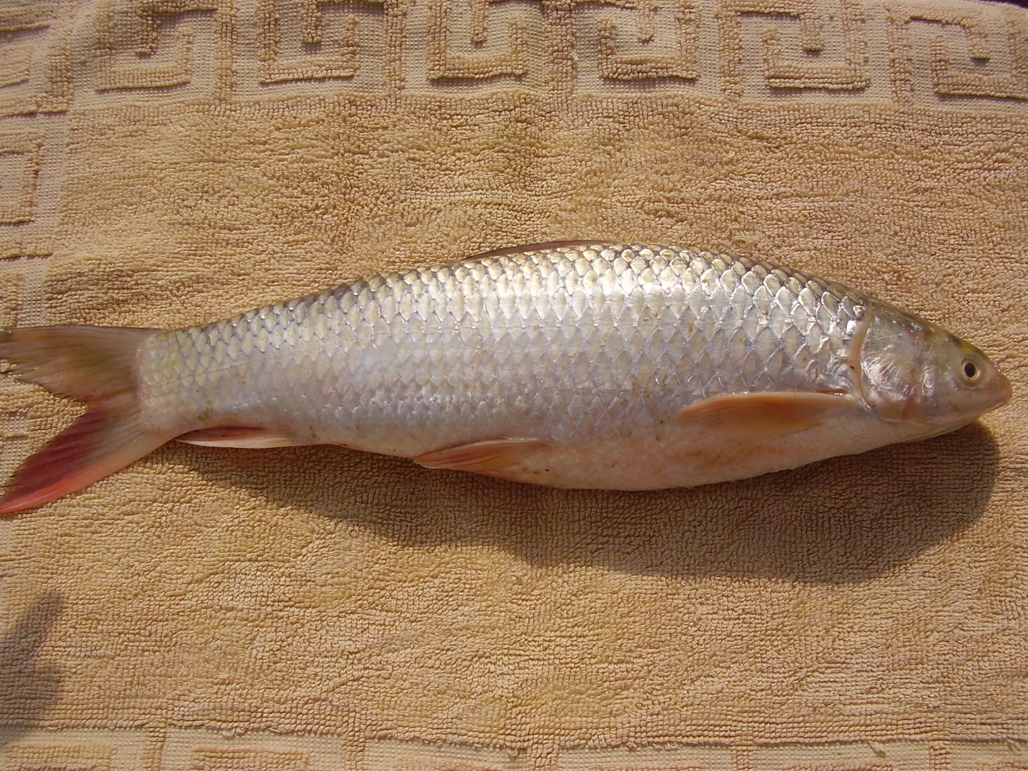 Mahasher (Tor putitora)